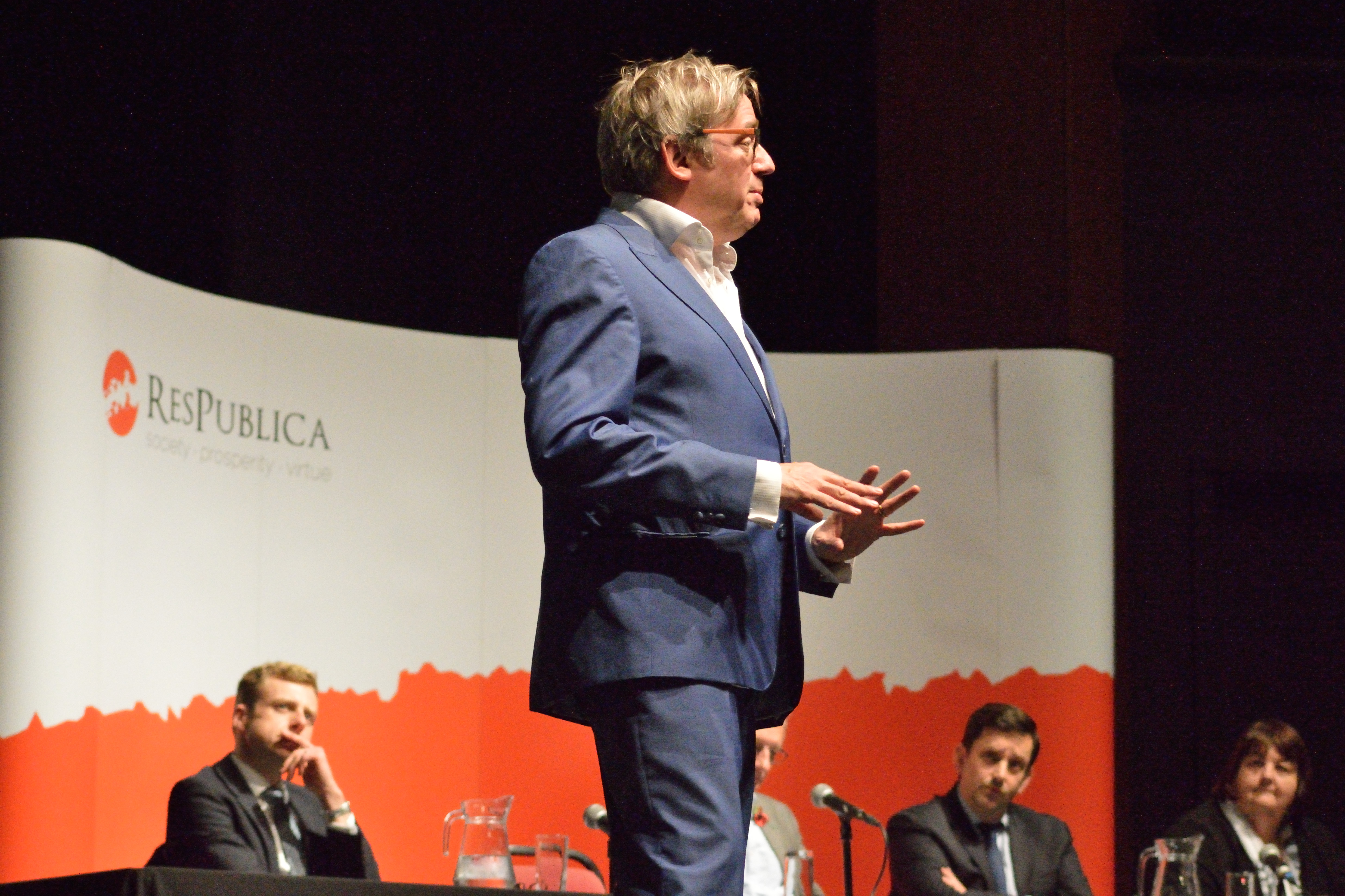 Phillip Blond, founder of ResPublica , speaking at its Tomorrow's Democracy day conference at The Riverfront, Newport, on 5 November 2018.